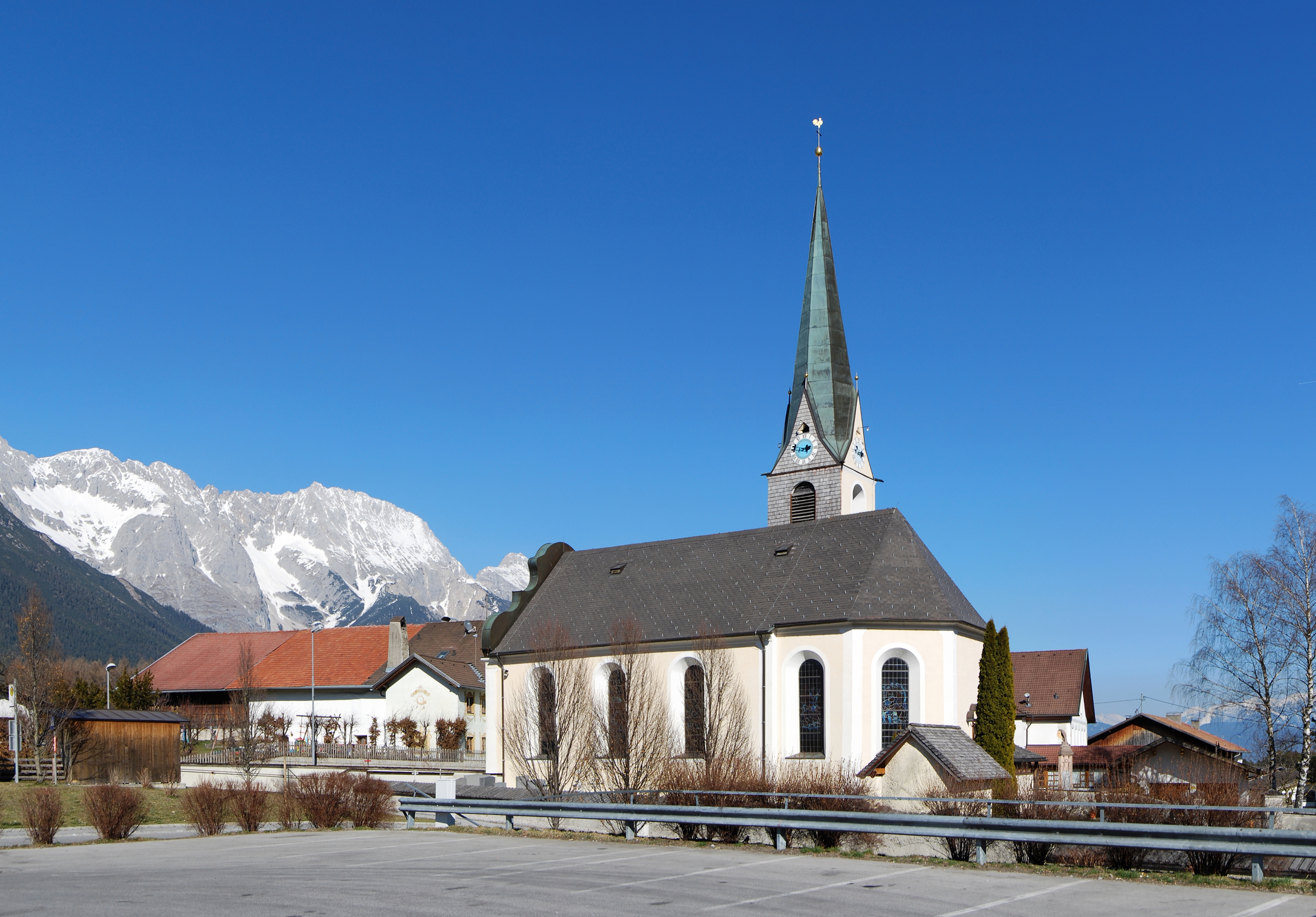 The parish church St. Joseph in Obsteig, Tyrol.